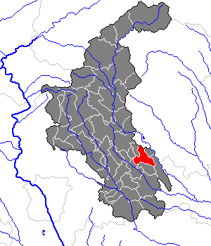 This map shows the area of the Gemeinde (municipality) Pischelsdorf in der Steiermark in the Bezirk (district) Weiz, Styria, Austria.